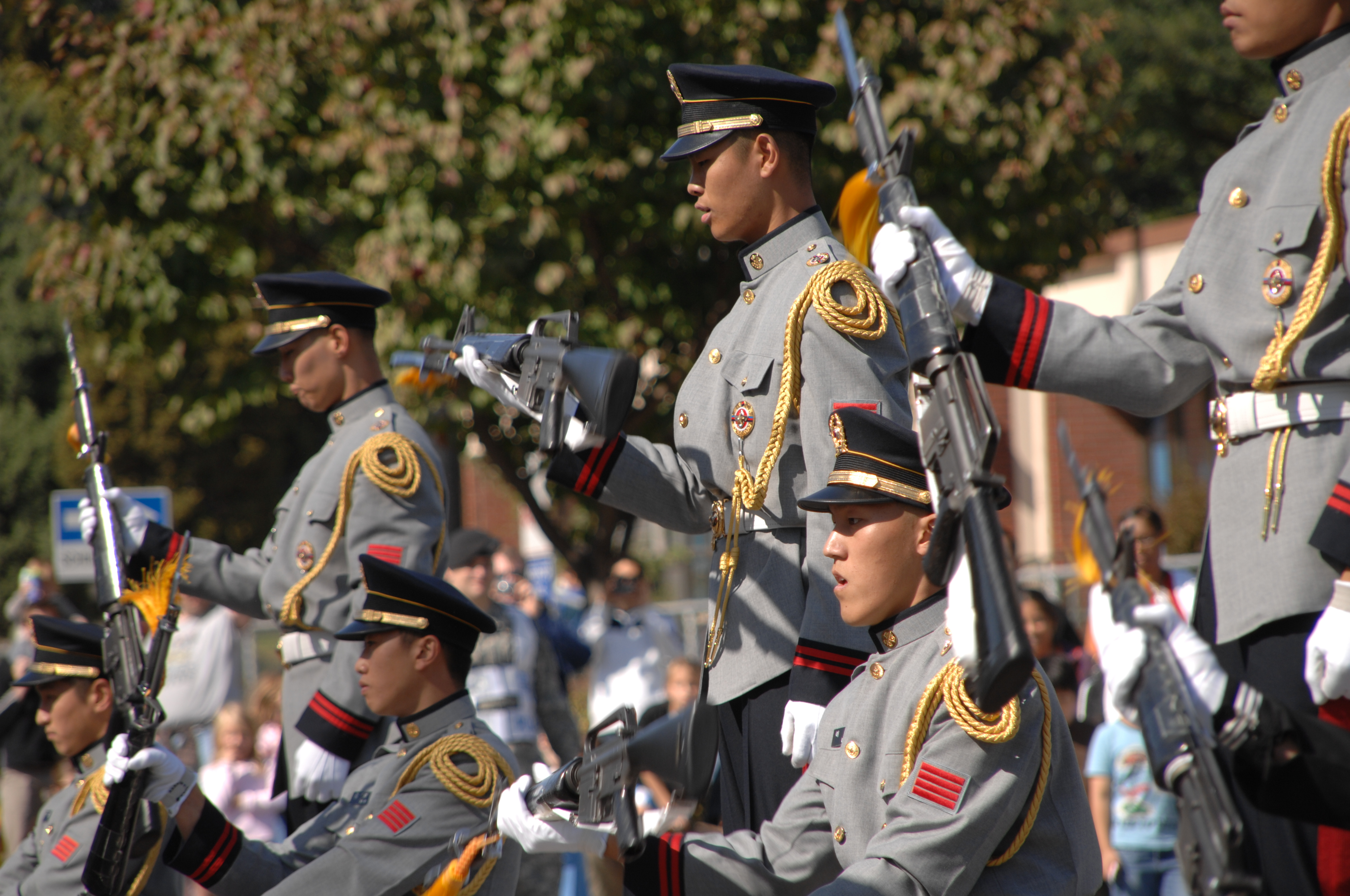 R.O.K. military drill team performs during the Fall Festival Parade, Yongsan Garrison, Seoul, Korea. Oct. 11, 2008. U.S. Army Korea Media Center official image archive